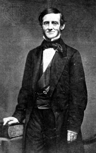 Samuel J. Tilden